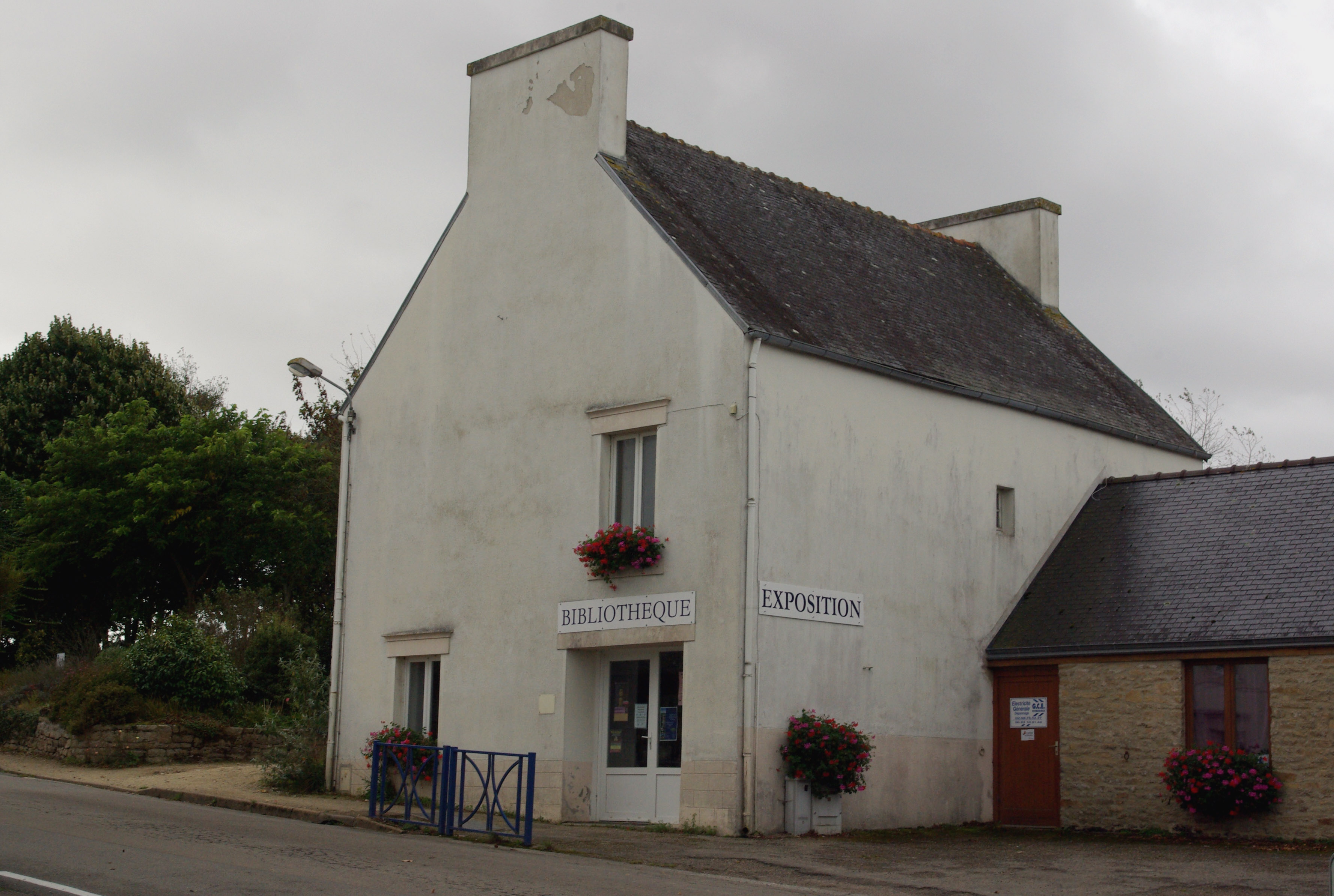 Mahalon, the library